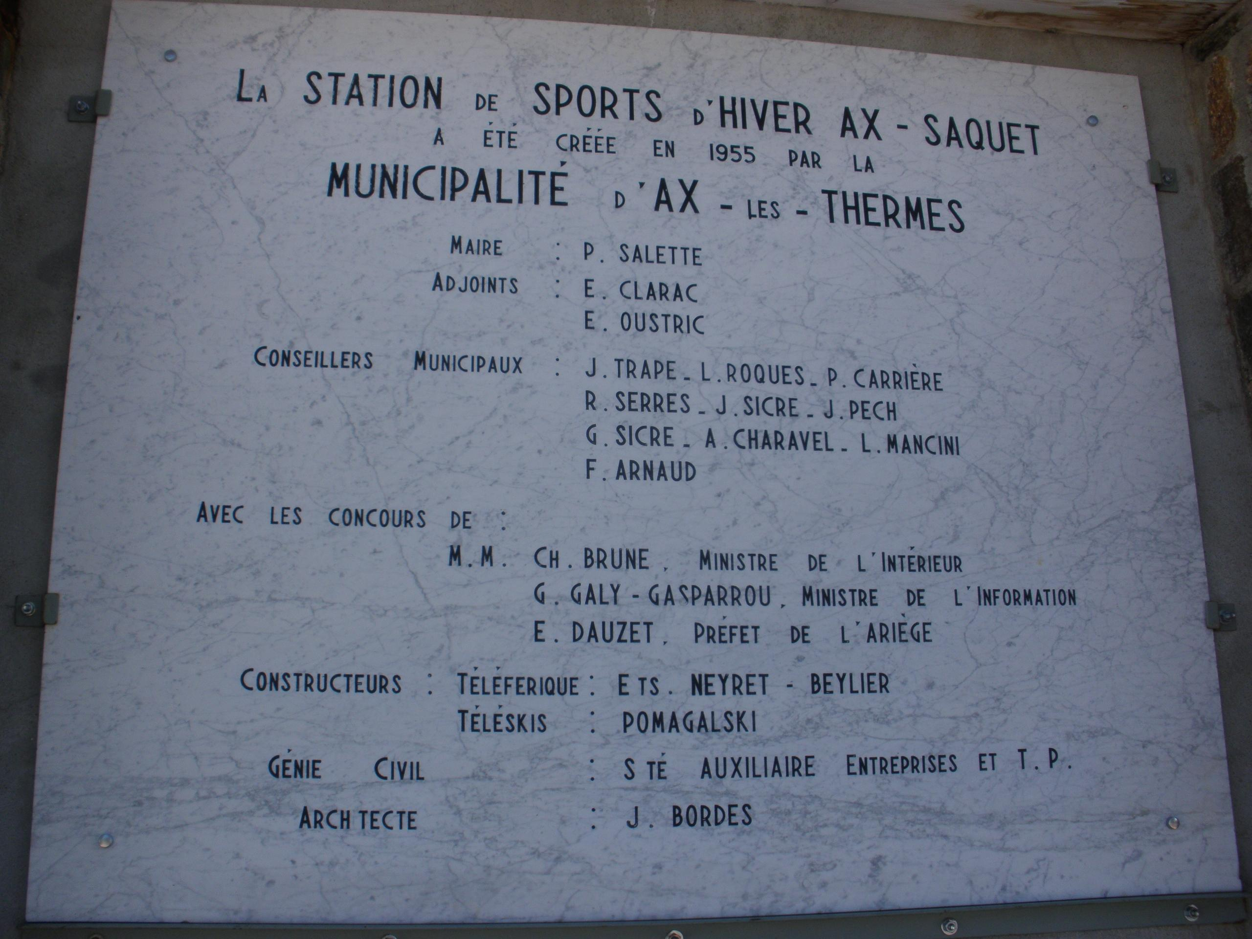 Ax 3 Domaines